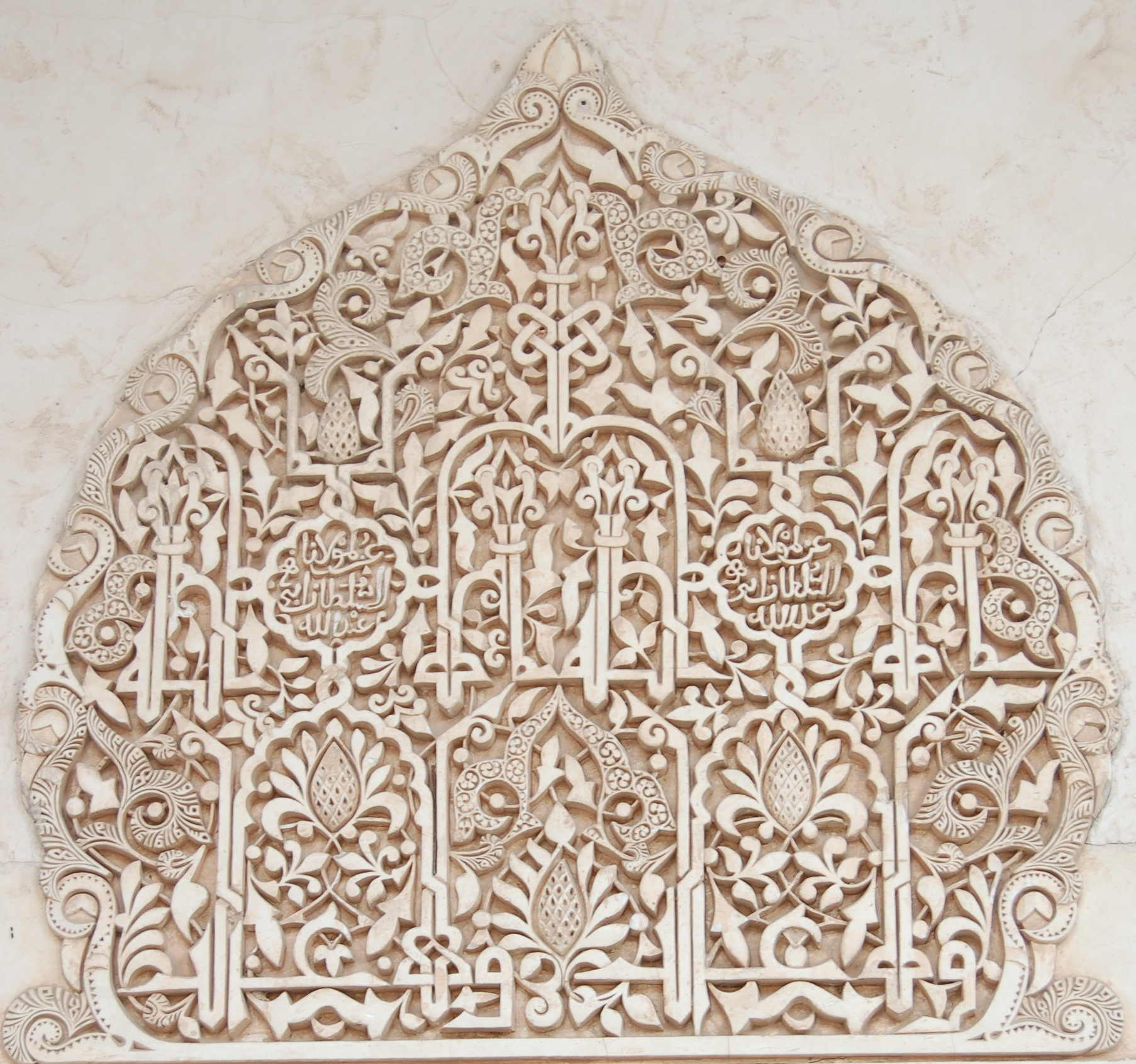 Ornamental plasterwork from the Alhambra